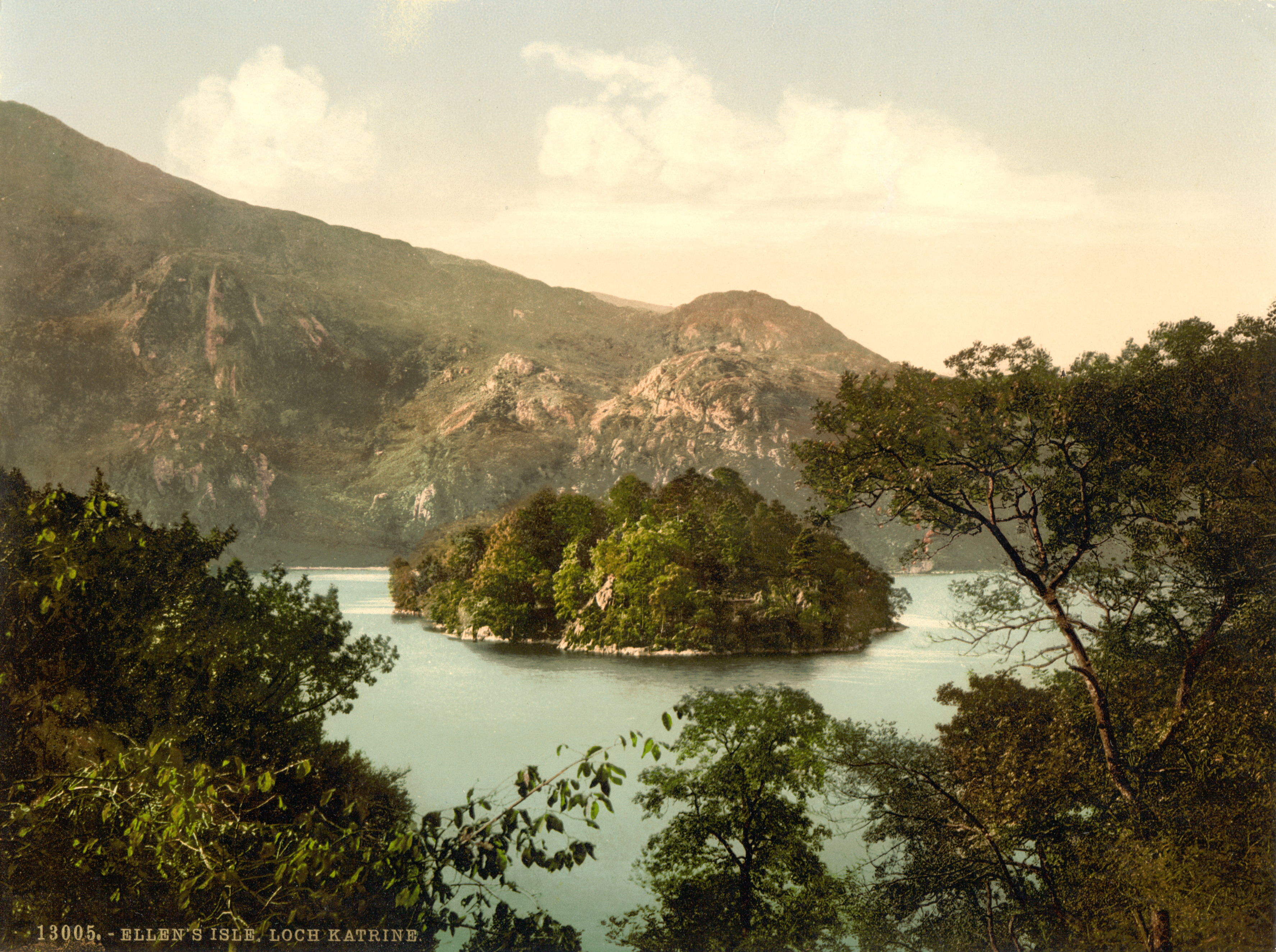 Title from the Detroit Publishing Co., catalogue J-foreign section. Detroit, Mich. : Detroit Photographic Company, 1905.; More information about the Photochrom Print Collection is available at Print no. "13005".; Forms part of: Views of landscape and architecture in Scotland in the Photochrom print collection.